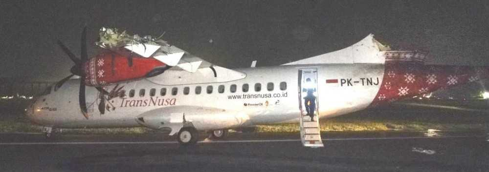 TransNusa Aviation Mandiri PK-TNJ wreckage